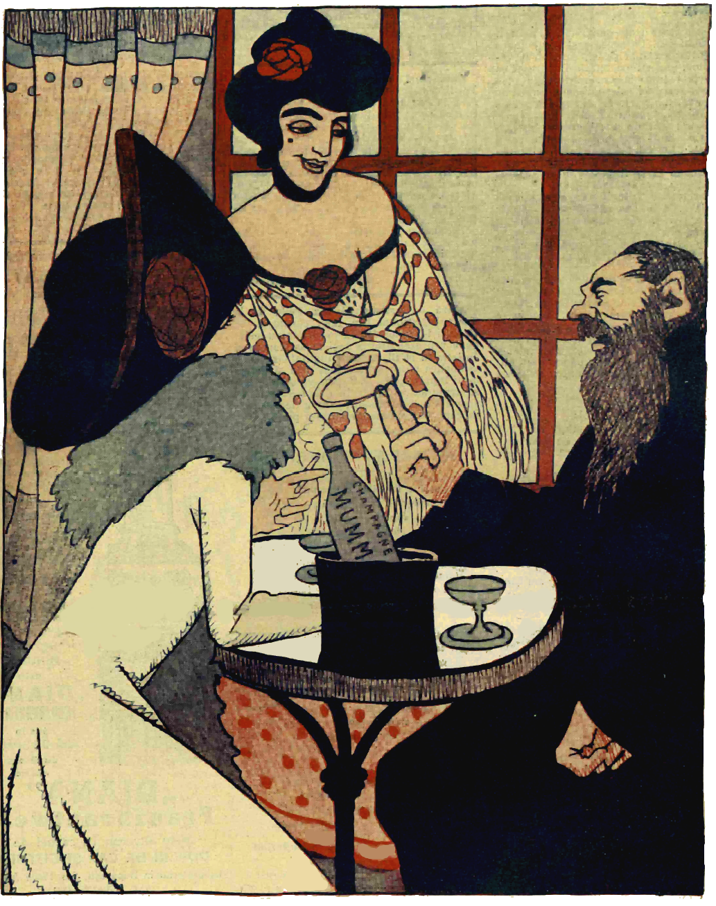 Cafeșantan. — Șambru separe, Macaronic French–Romanian jargon for Café-chantant and Chambre Séparée ("Separate Room"). Cartoon depicts an Orthodox priest (Gherasim Safirin?) entertaining prostitutes in a Bucharest bar.